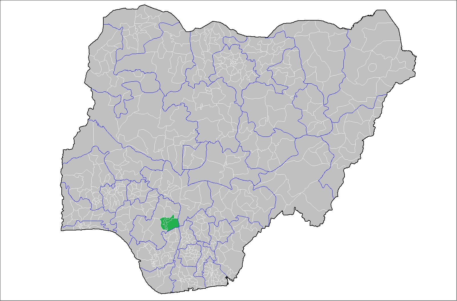 This is a map of Esanland in Nigeria.